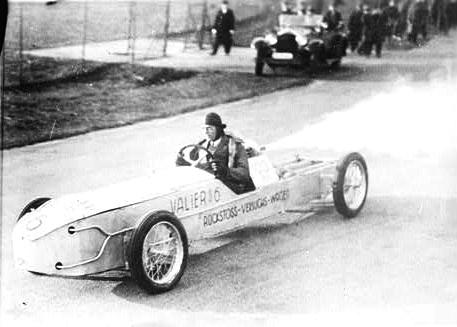 Austrian rocket pioneer Max Valier in his rocket car (circa 1928-1930). This is a cropped and contrast-enhanced version of an image from the Library of Congress online collection (see catalog information below). As the work of a US Government agency, copyright restrictions do not apply. The Library of Congress records this photograph as taken in 1931, but this cannot be so, as Valier died in 1930. TITLE: Marshall Space Flight Center, Redstone Rocket (Missile) Test Stand, Dodd Road , Huntsville vicinity, Madison County, AL CALL NUMBER: HAER ALA,45-HUVI.V,7A- REPRODUCTION NUMBER: [See Call Number] MEDIUM: Measured Drawing(s): 7 (34 x 44 in.) Photo(s): 52 (4 x 5 in. and 5 x 7 in.) Data Page(s): 79 plus cover page DATE: Documentation compiled after 1968. CREATOR: Historic American Engineering Record, creator RELATED NAME(S): Von Braun, Wernher Mercury-Redstone Army Ballistic Missile Agency National Aeronautic & Space Administration (NASA) NOTE: Survey number HAER AL-129-A Field note material exists for this structure (N182). Building/structure dates: 1952 initial construction Building/structure dates: 1954 subsequent work Building/structure dates: 1959 subsequent work National Register Number: 76000341 SUBJECTS: ALABAMA--Madison County--Huntsville vicinity OTHER TITLE: Marshall Space Flight Center, Interim Test Stand Marshall Space Flight Center, Building No. 4665 Redstone Arsenal COLLECTION: Historic American Engineering Record (Library of Congress) REPOSITORY: Library of Congress, Prints and Photograph Division, Washington, D.C. 20540 USA DIGID: 18. HISTORIC VIEW OF MAX VALIER, FOUNDING MEMBER OF THE VEREIN FUER RAUMSCHIFFAHRT (GERMAN SOCIETY FOR SPACE TRAVEL), DRIVES HIS ROCKET CAR IN 1931. HAER ALA,45-HUVI.V,7A-18